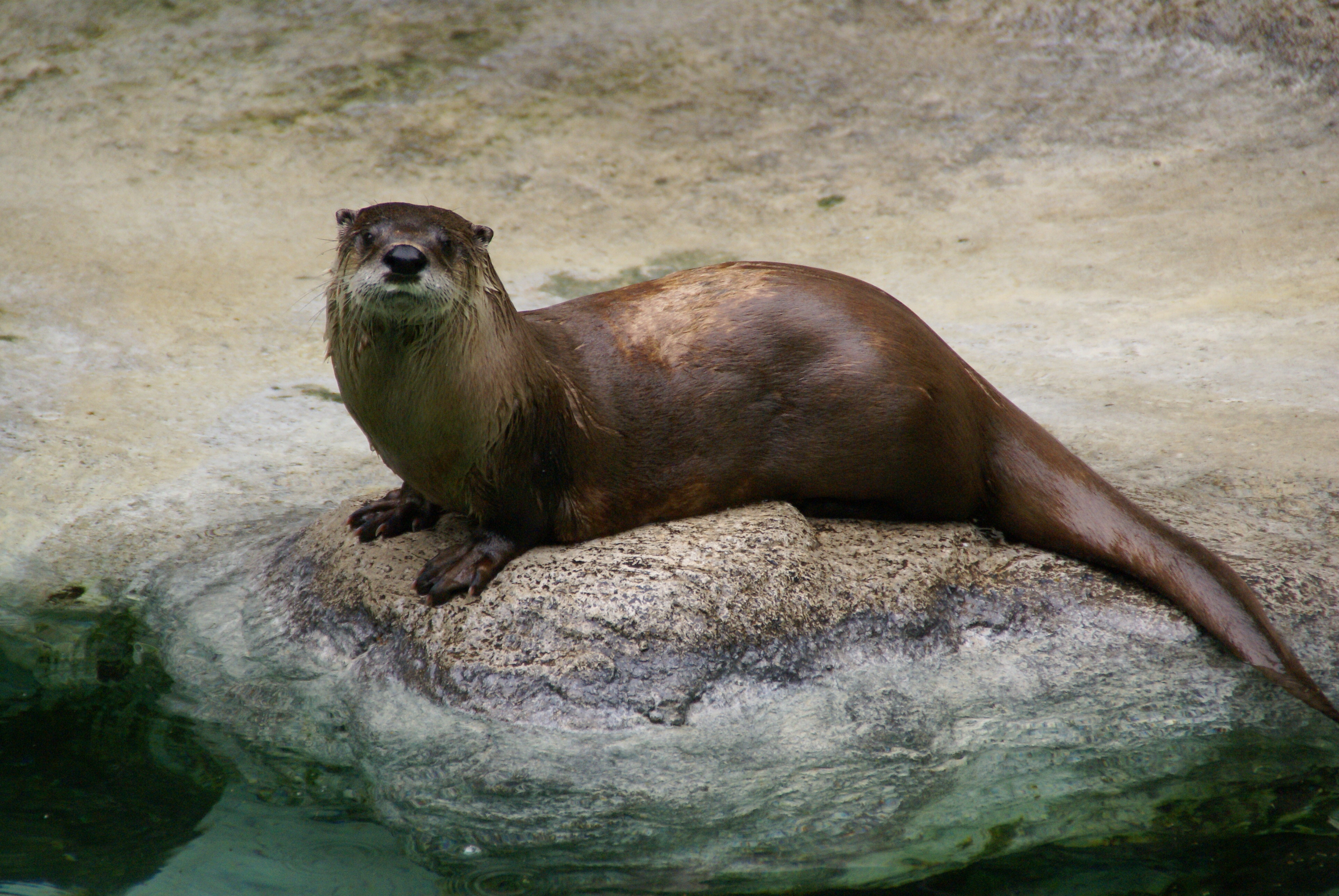 River otter